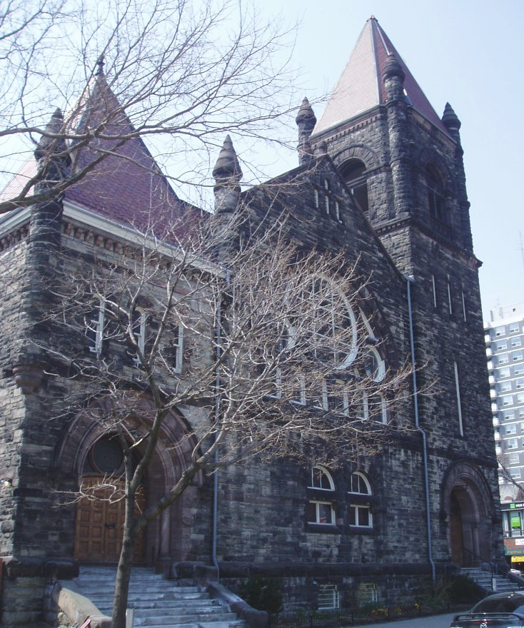 Taken by SimonP in April 2005